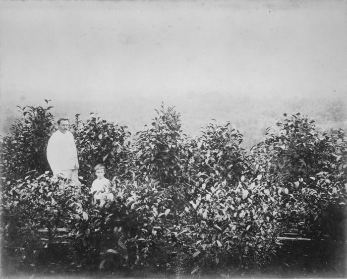 Man and child standing between coffee and/or tea trees of a plantation, Dutch East Indies